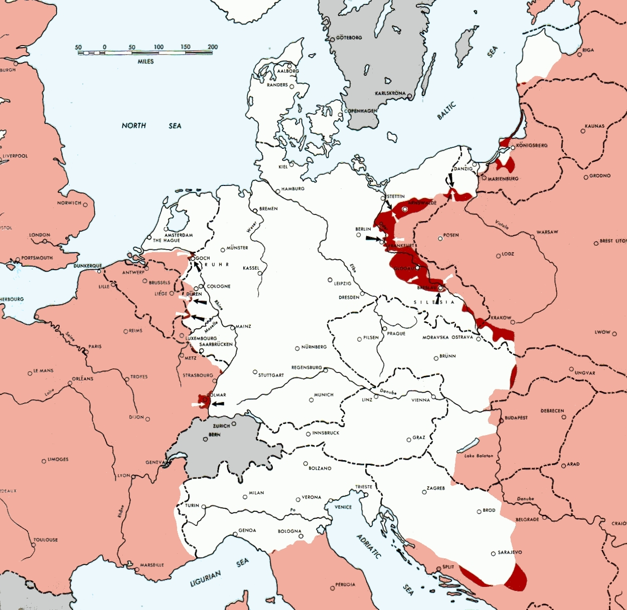 Map of the front against Germany: This map is taken from the source "Atlas of the World Battle Fronts in Semimonthly Phases to August 15th 1945: Supplement to The Biennial report of The Chief of Staff of the United States Army July 1, 1943 to June 30 1945 To the Secretary of War". (See Cover, Forward and Map details)